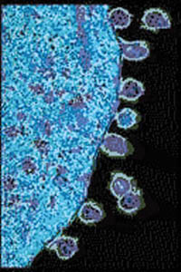 HIV daughter particles being shed from an infected T cell.